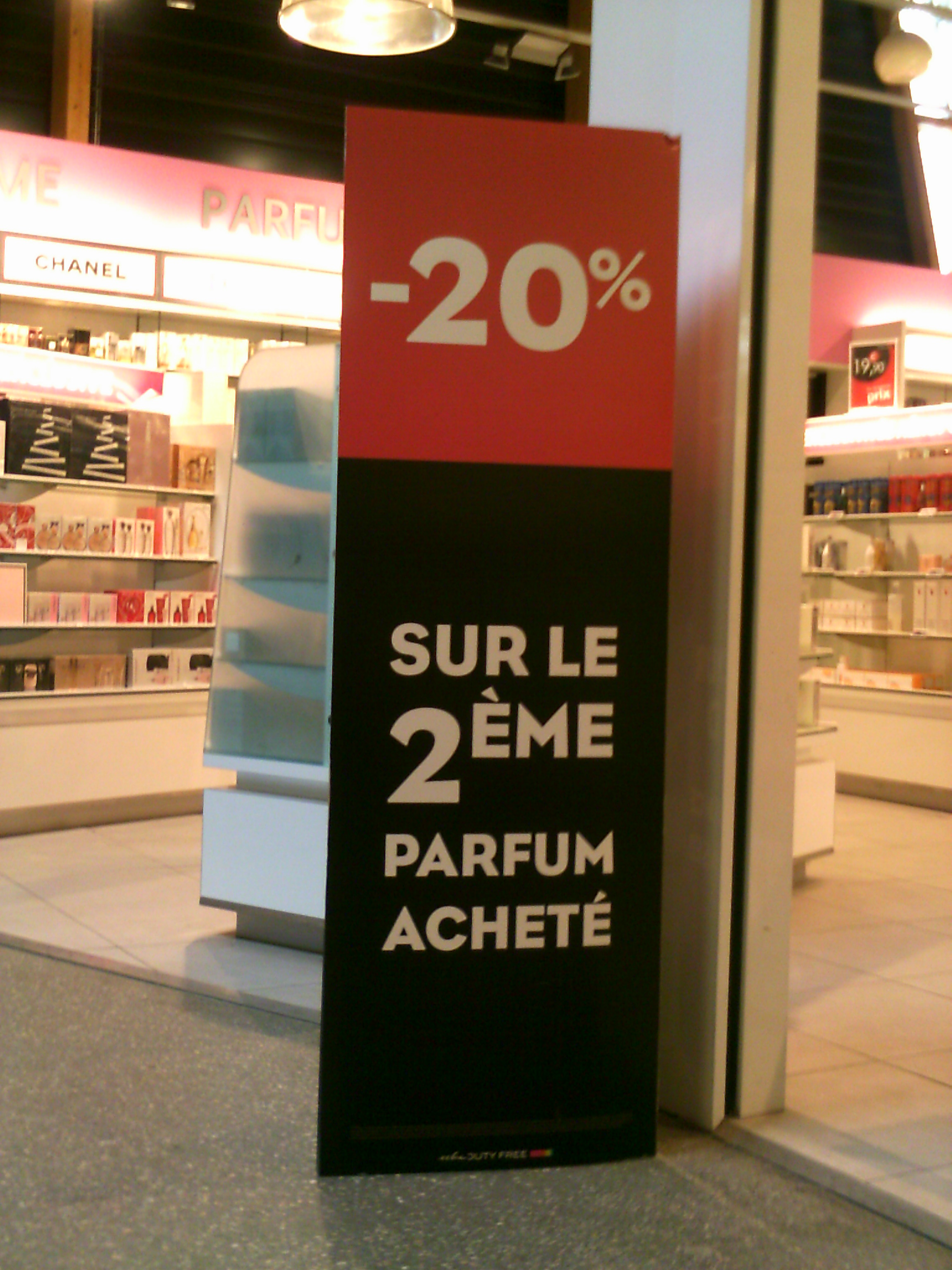 Placard outside shop in Bordeaux, April 2014